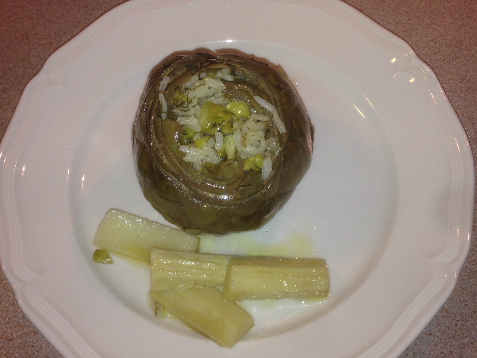 Enginar dolma, Turkish food (rice-stuffed artichoke)